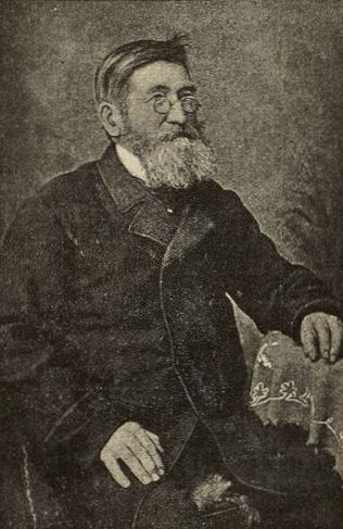 Photo of Robert Isaac Jones (1813 - 1905) Welsh writer and pharmacist. Cropped from full image.